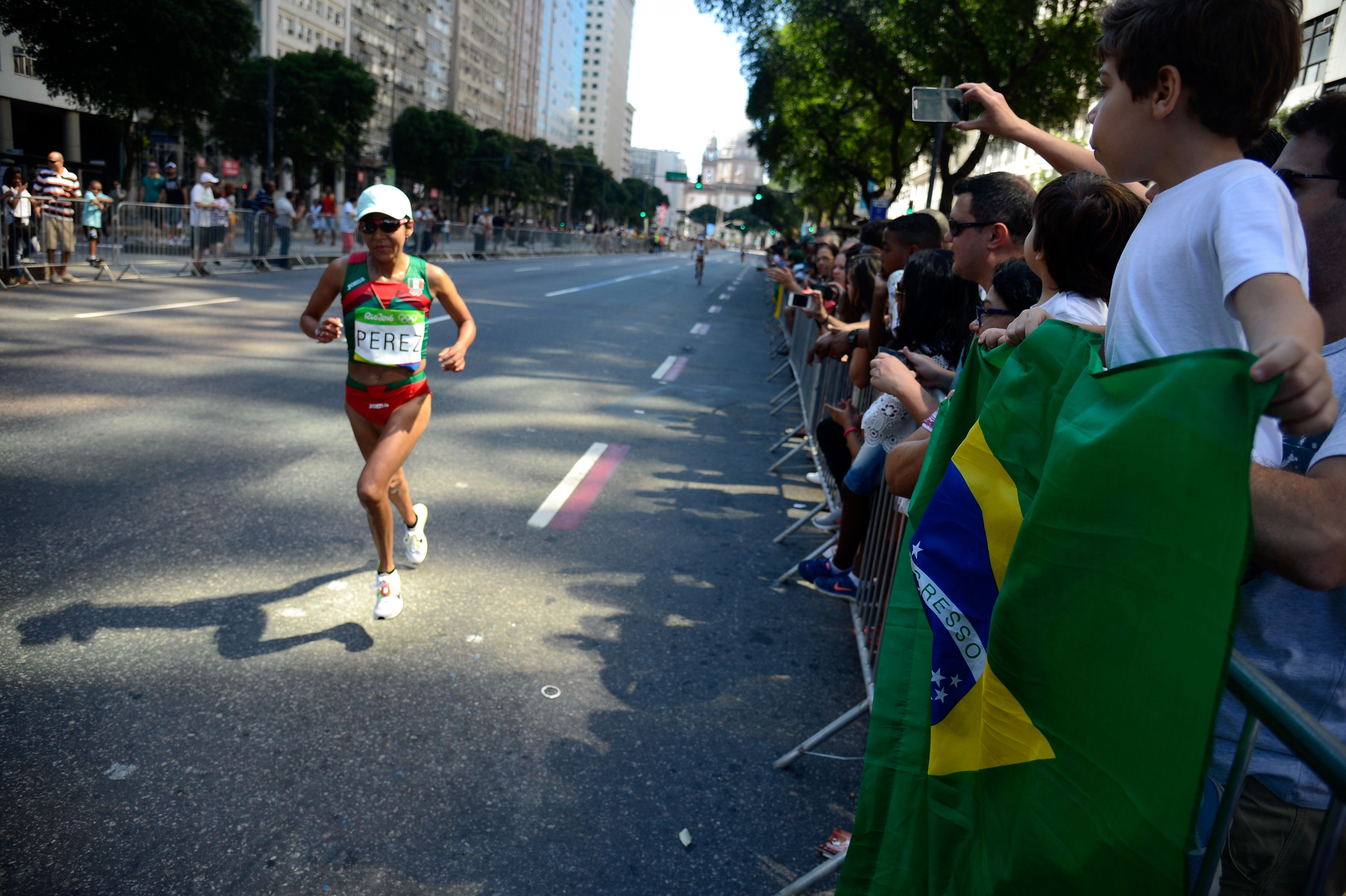 Women's marathon at the 2016 Summer Olympics